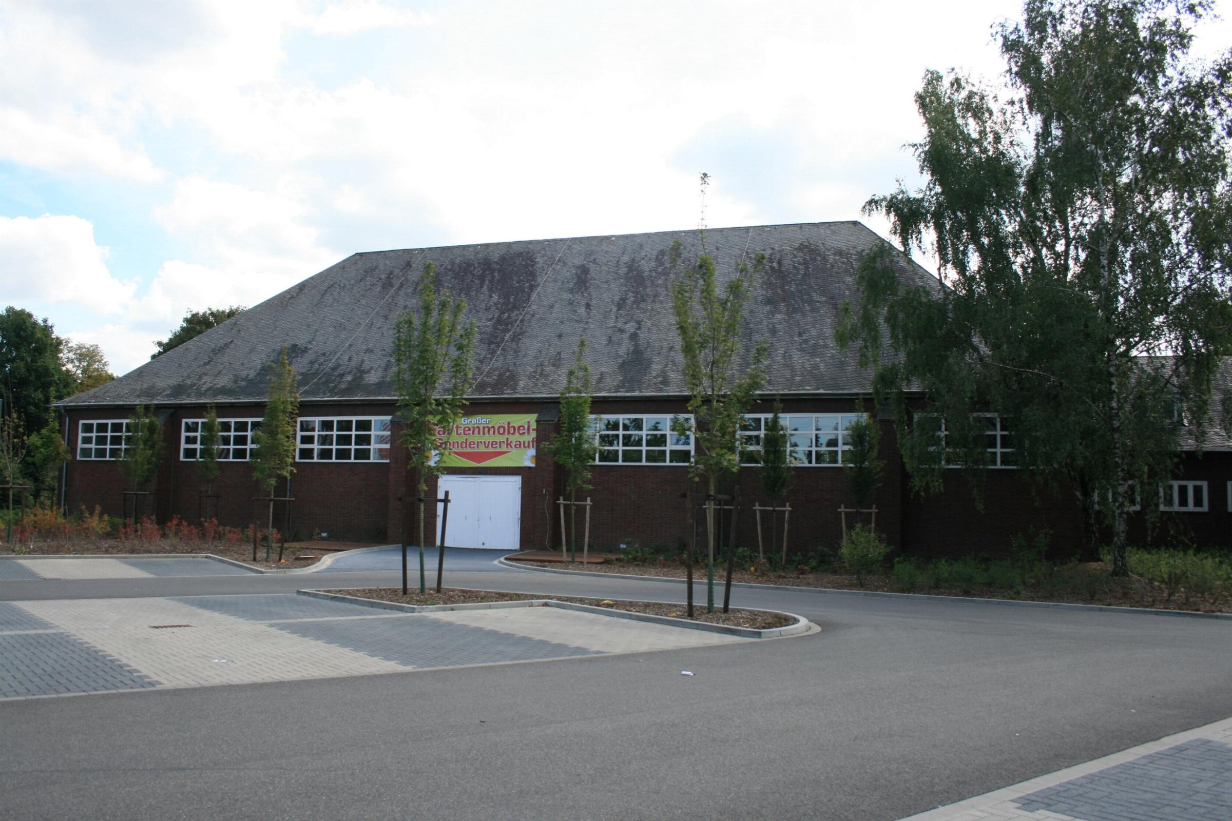 Cultural heritage monument No. T 008b in Mönchengladbach